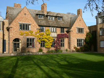 Bredon House